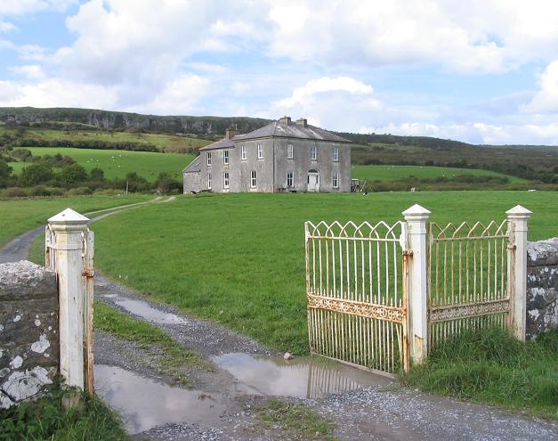 Father Ted's Parochial House, "Craggy Island" After seeing a photo of this on Geograph, I had to go there. It is located somewhere North East of Killinaboy, in the Burren National Park. Craggy Island, of course doesn't exist, but this is where they filmed the outside of the house. The island shots they show is of Inisheer, one of the Aran islands nearby. Interestingly, there is a place on the mainland close by the island called "Craggagh".